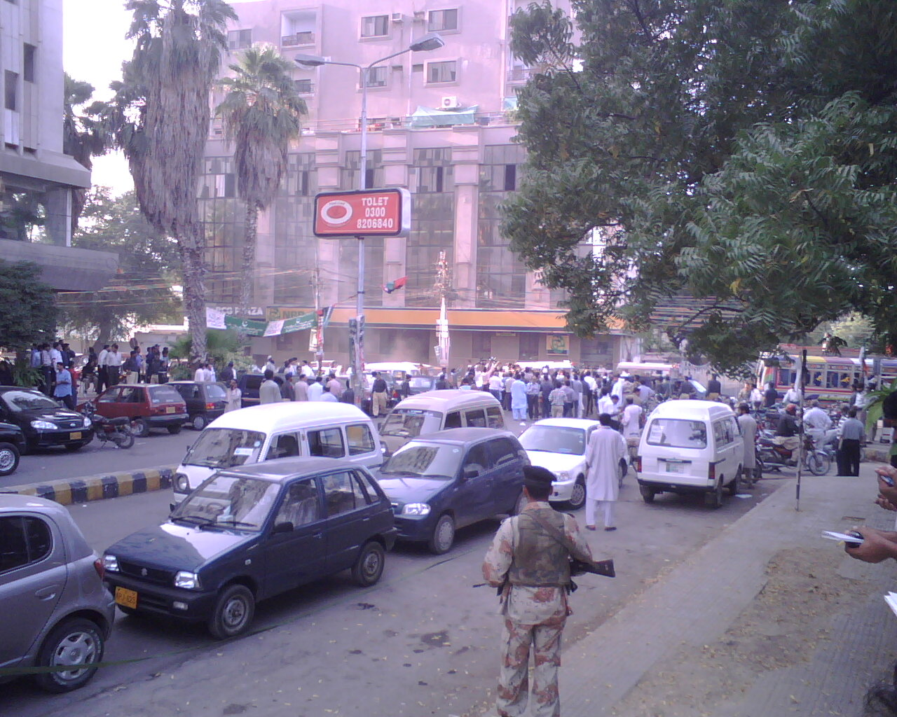 Police present at a pro-judiciary protest outside the Karachi Press Club immediately after the imposition of the Pakistani state of emergency on 5 November 2007.